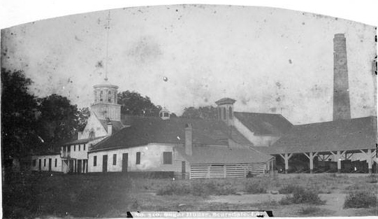 Sugar House, Scarsdale, Louisiana